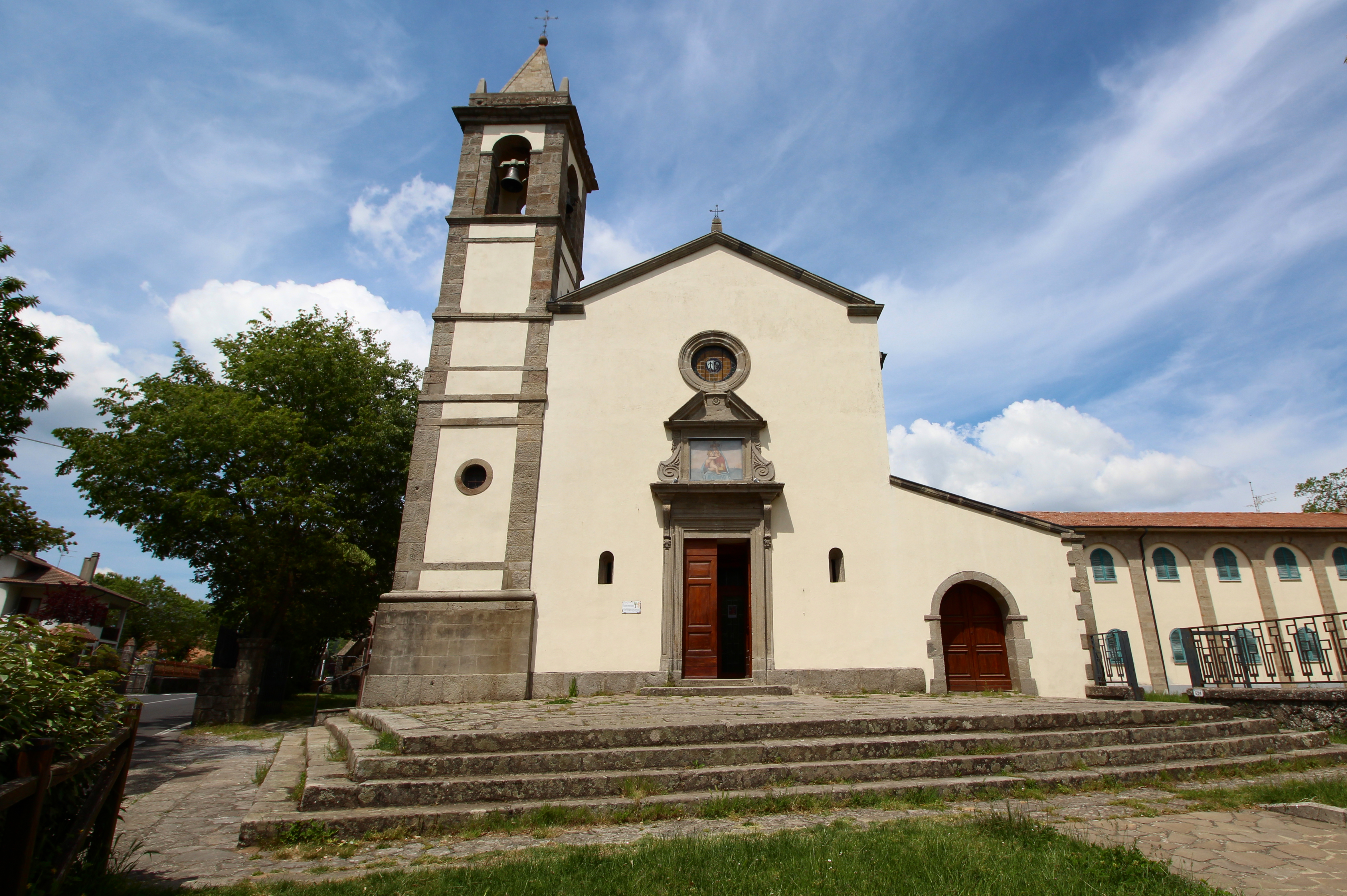 Sanctuary Santuario di Madonna di San Pietro, Piancastagnaio, Province of Siena, Tuscany, Italy.